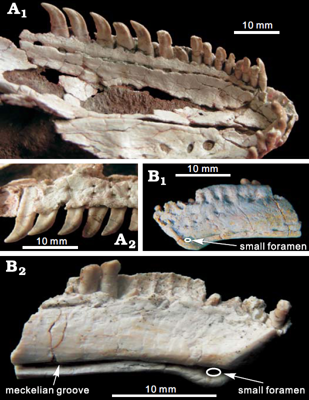 A troodontid theropod Xixiasaurus henanensis gen. et sp. nov. (HGM41HIII−0201; holotype), lower–middle Majiacun Formation (Upper Creta−ceous: Coniacian–Campanian), Henan Province, China. A. Rostrum of skullin palatal (A1) and right lateral (A2) views. B. Anterior part of left dentary inlateral (B1) and medial (B2) views.